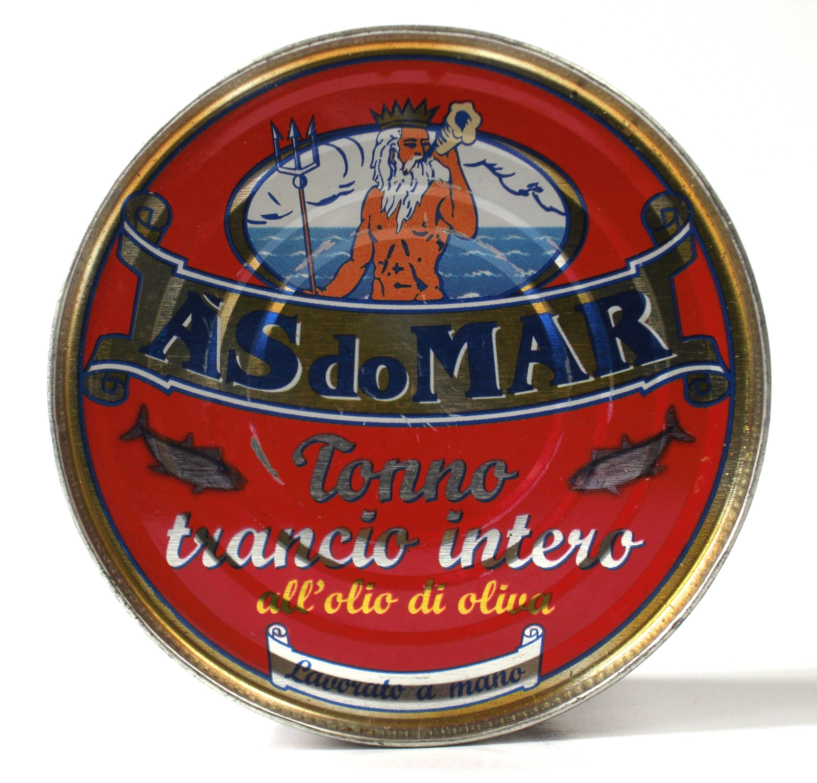 'AS do MAR' - Canned Thuna